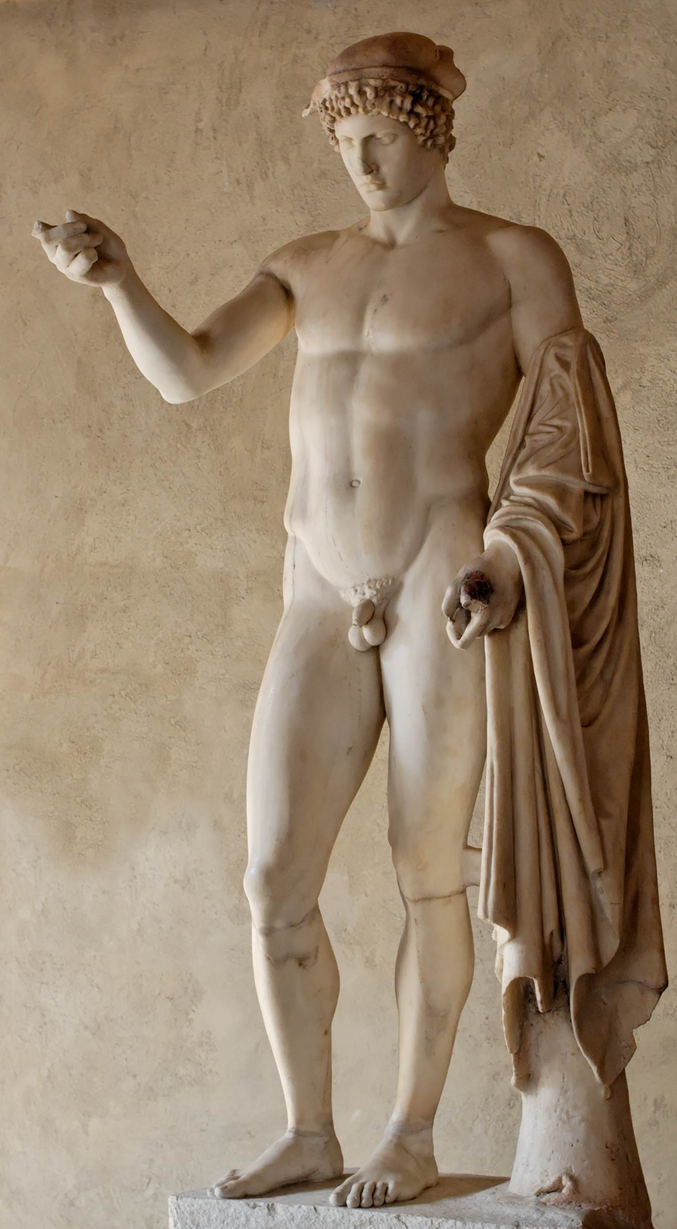 So-called “Logios Hermes” (Hermes,Orator). Marble, Roman copy from the late 1st century CE-early 2nd century CE after a Greek original of the 5th century BC.